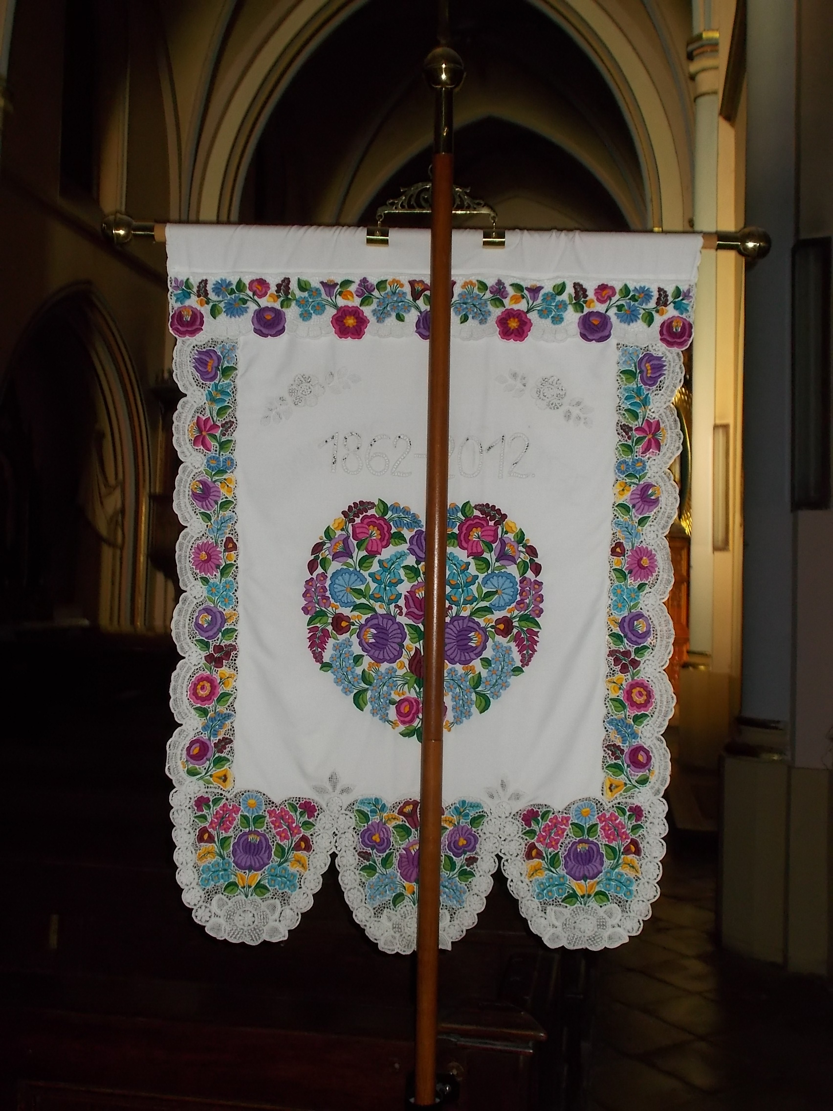 Saint Stephen of Hungary Church or Jesuit Church, religious standard with Kalocsa folk art embroidery. - 24, Szent István király út, Kalocsa, Bács-Kiskun County.